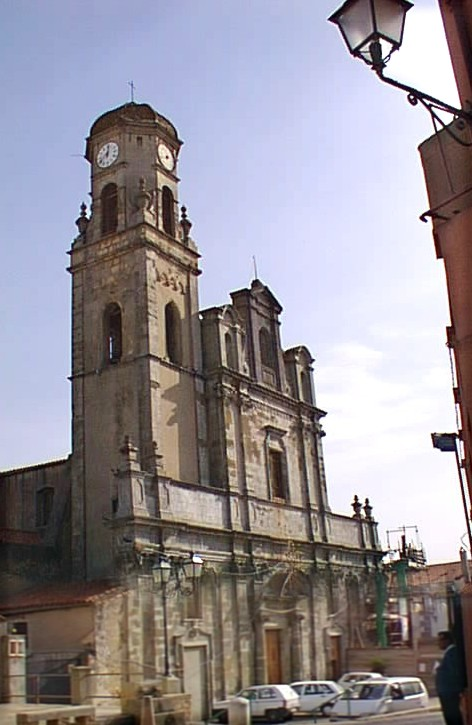 Sanluri, Italy, Church of Nostra Signora delle Grazie